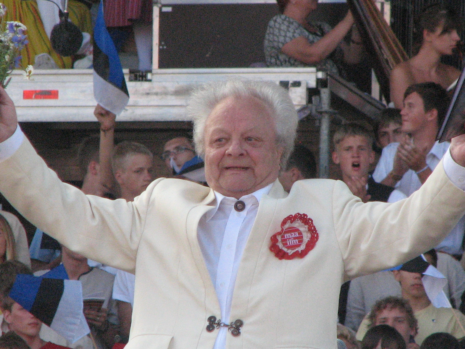 Estonian conductor Ants Üleoja in XI noorte laulu- ja tantsupidu "Maa ja ilm"